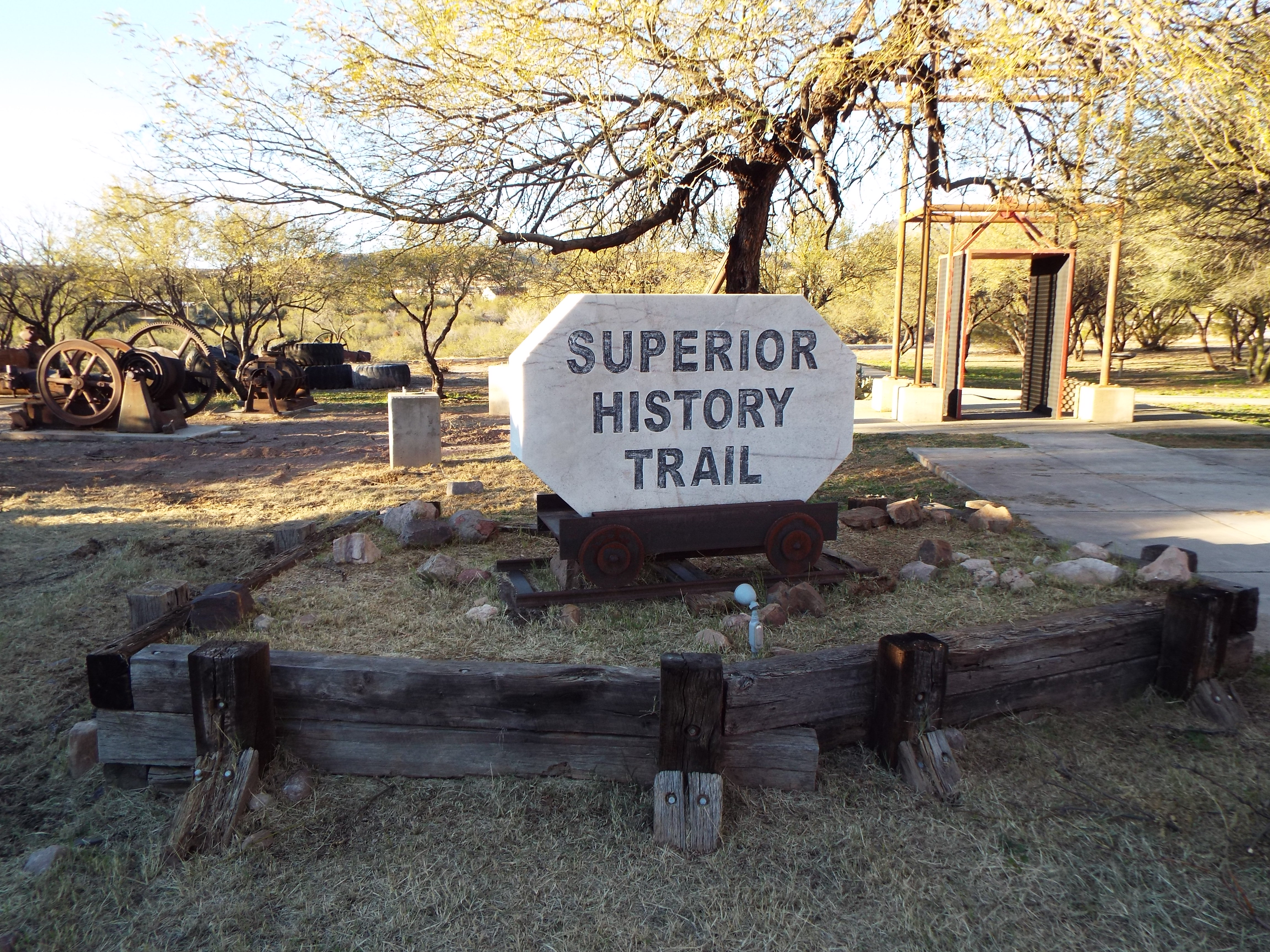 Superior History Trail Park in Superior, AZ